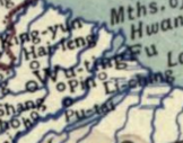 Gimme a minute